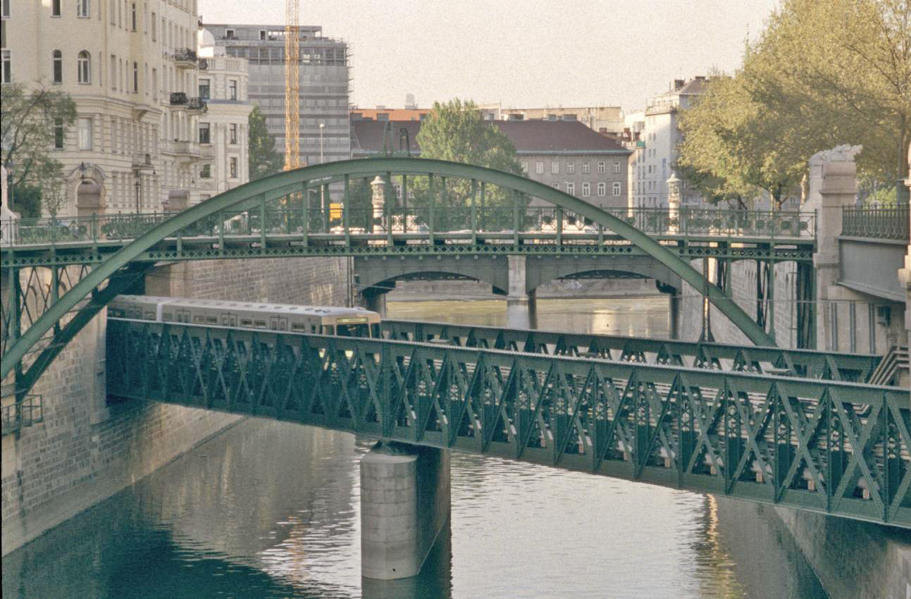 Zollamtsbruecke (Bridge) of the Vienna U-Bahn across the mouth of Wien River